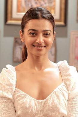 Radhika Apte snapped on the sets of Midnight Misadventures with Mallika Dua